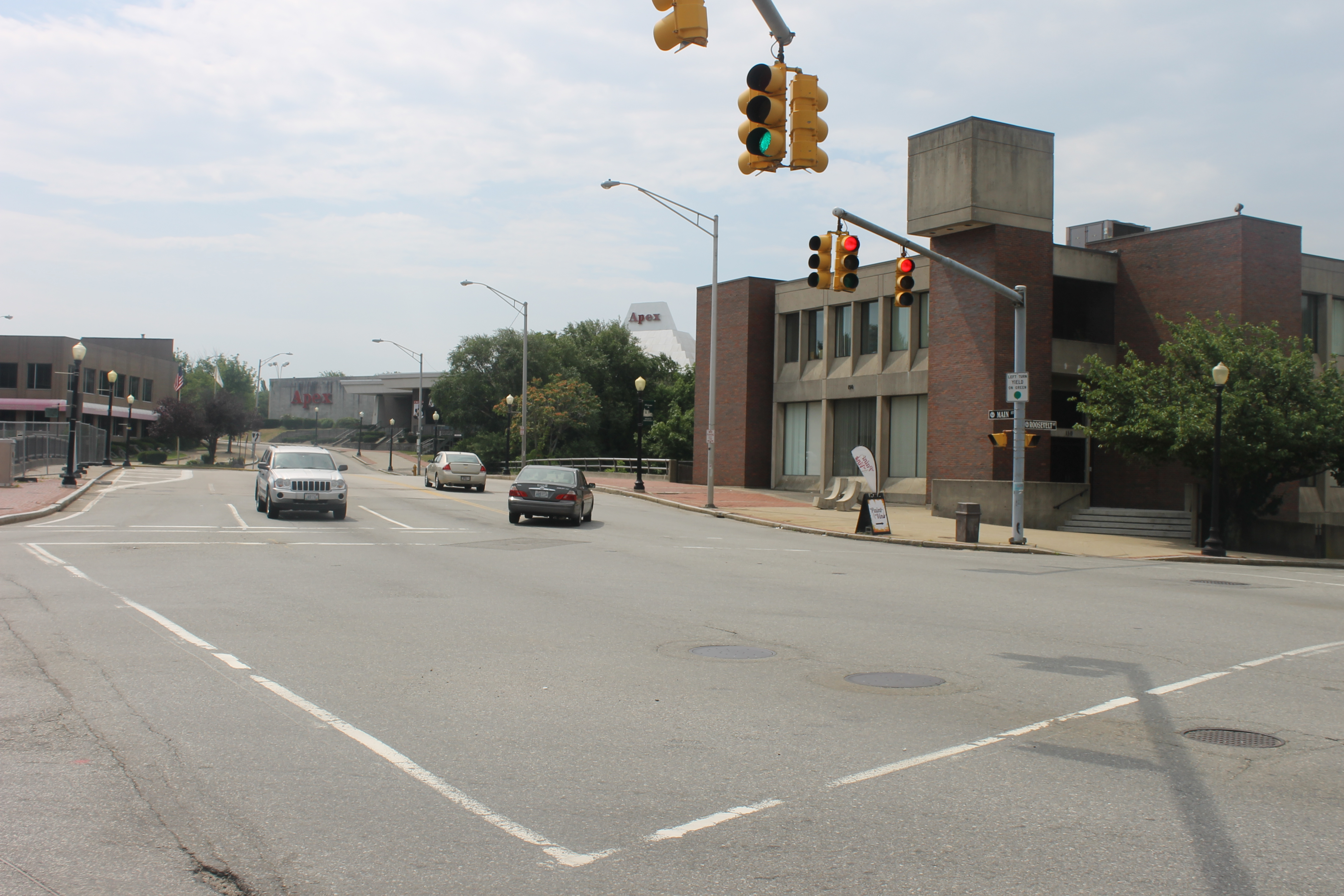 I took photo with Canon camera of downtown Pawtucket, RI.